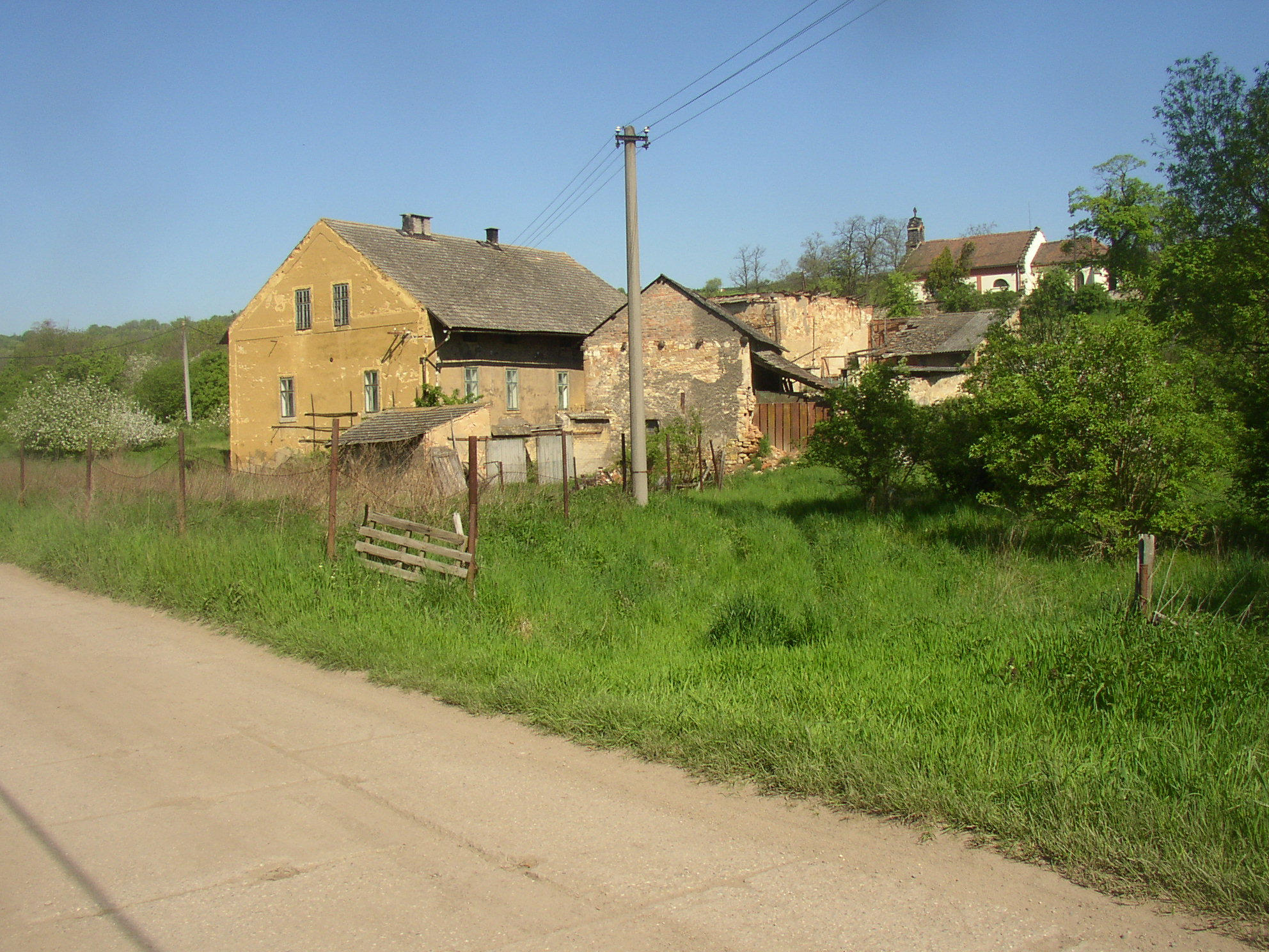 Ovčáry (nowadays part of Slaný town, Kladno District, Czech Republic). View from the south; Saint Wenceslaus church in the background.